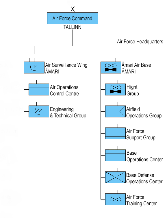 Structure of the Defense Forces of Estonia 2017